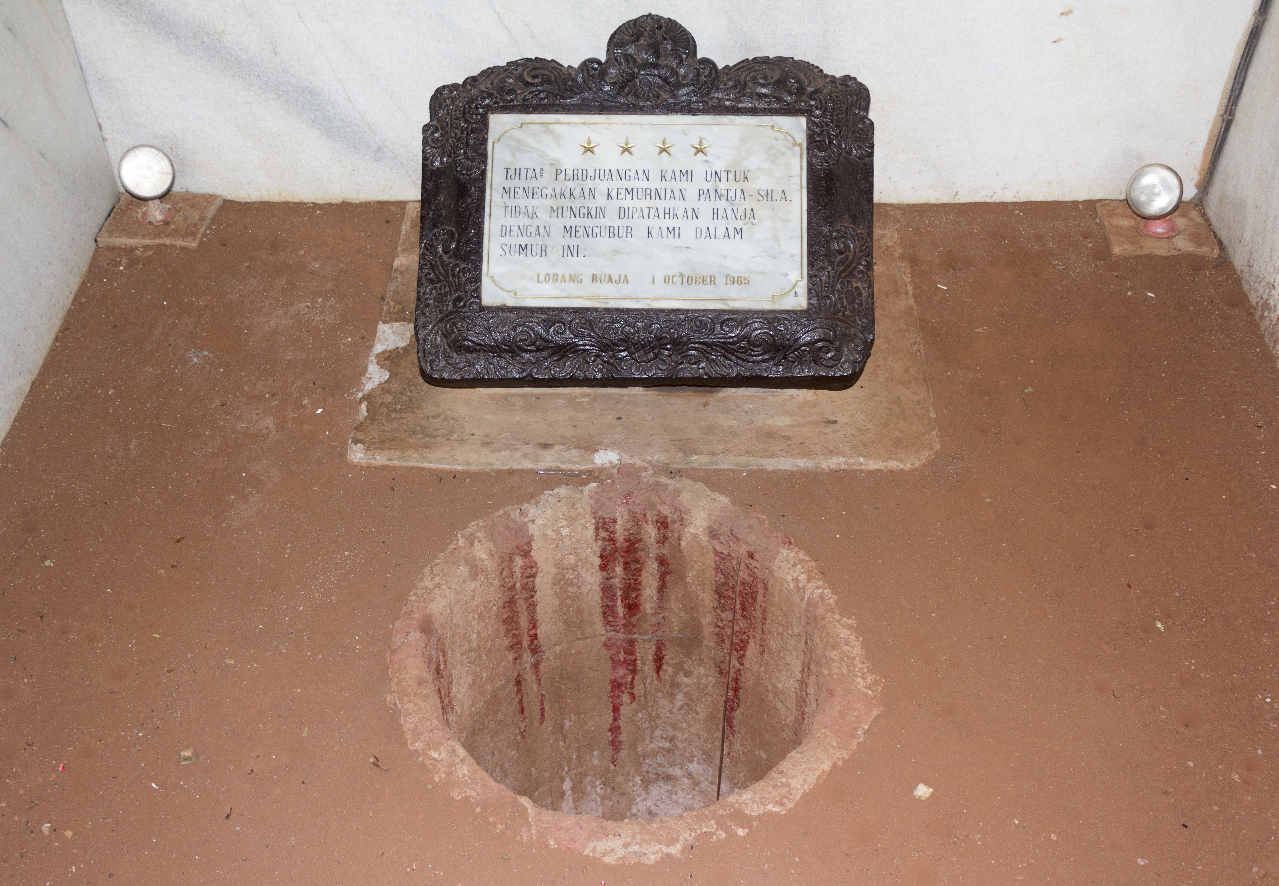 The well in which the bodies of seven generals were dumped during the G30S movement.